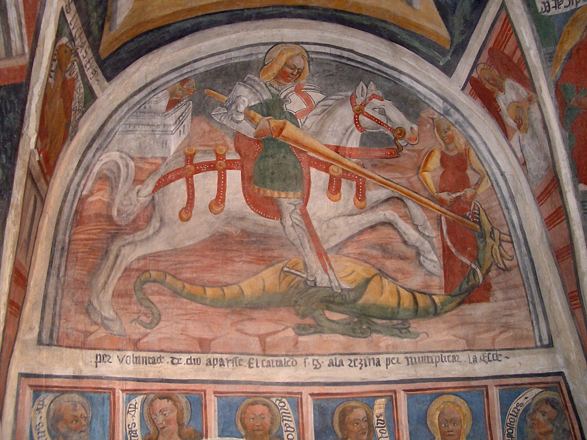 Baschenis Family, Saint George and the Dragon, fresco, XV century, apse of the Santo Stefano church, Carisolo